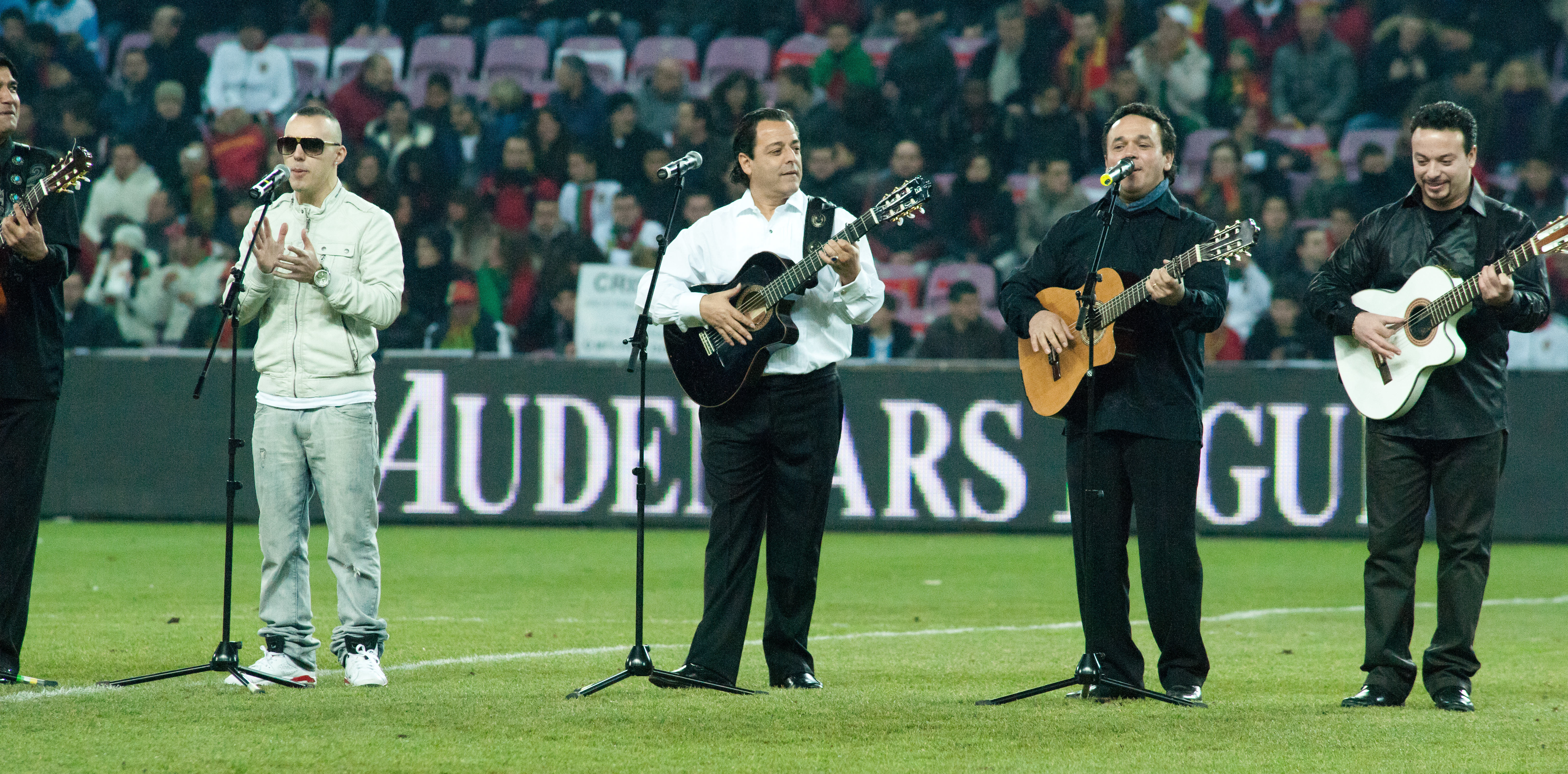 The making of this document was supported by Wikimedia CH. (Submit your project!) For all the files concerned, please see the category Supported by Wikimedia CH. Portugal vs. Argentina, 9th February 2011